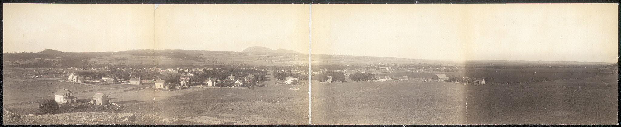 Panoramic view of Spearfish, South Dakota, USA. Taken in 1902.